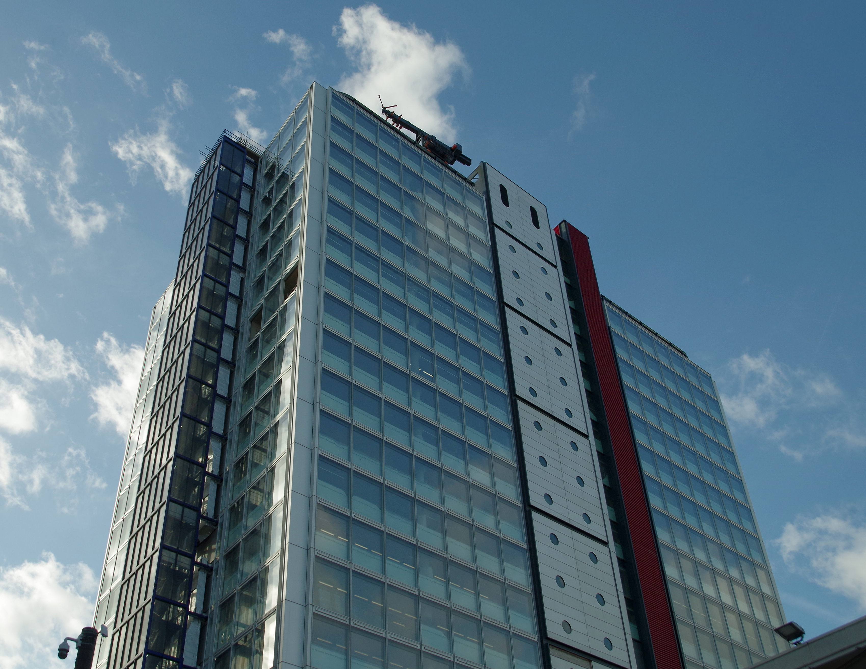 Looking up at TfL's new office at 5 Endeavour Square, Stratford.